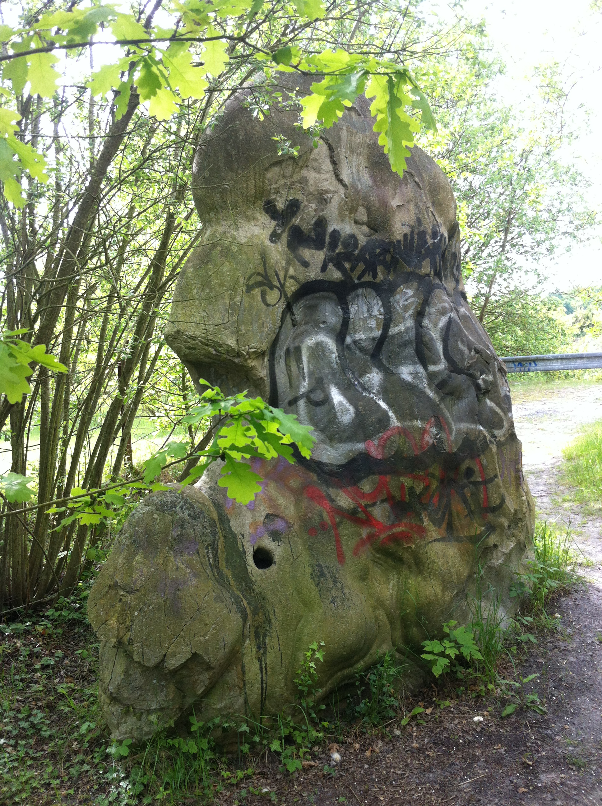 Megalithic monument also called Le Menhir de la Mere aux Cailles